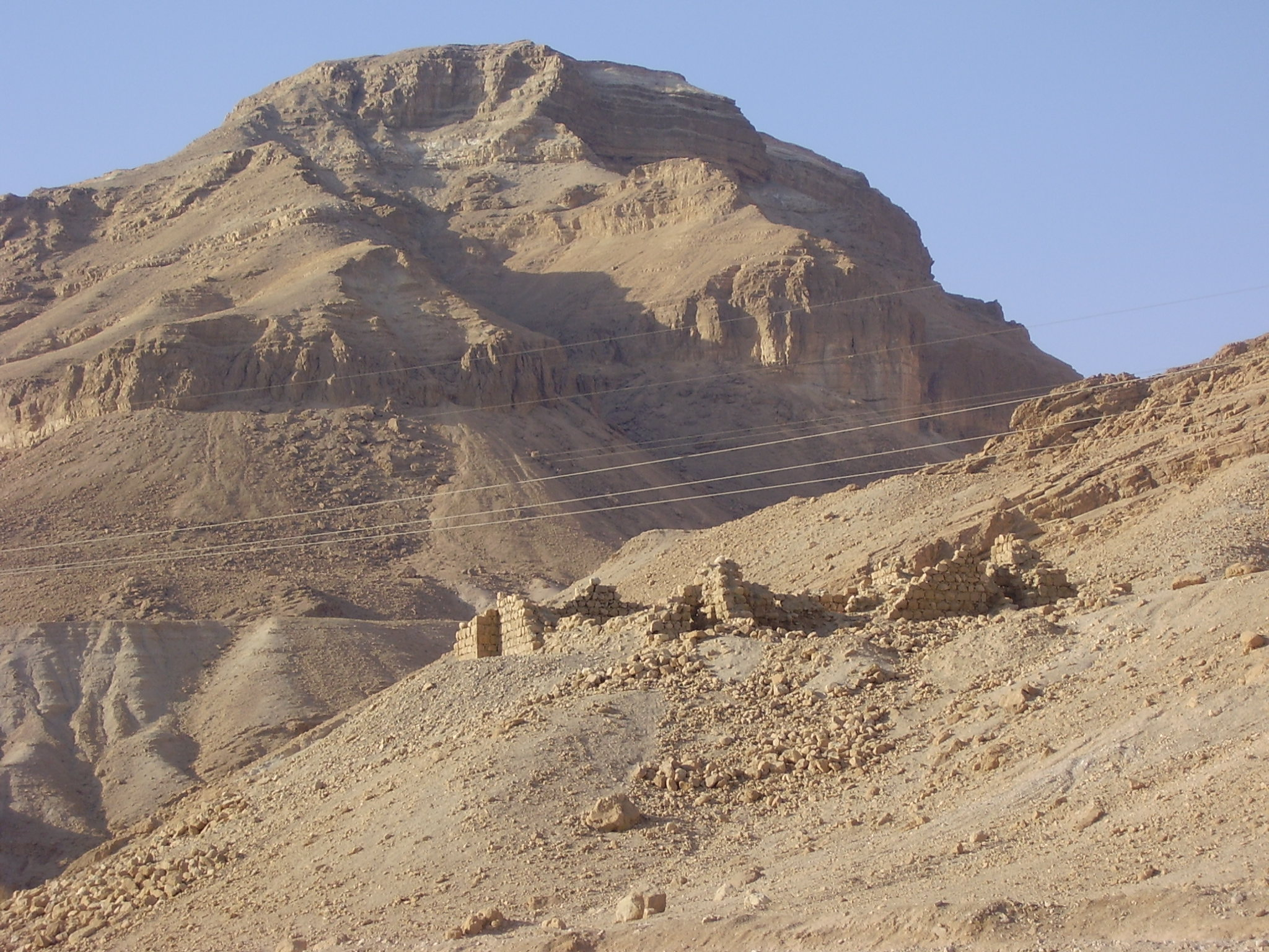 Bokek stronghold near Dead Sea